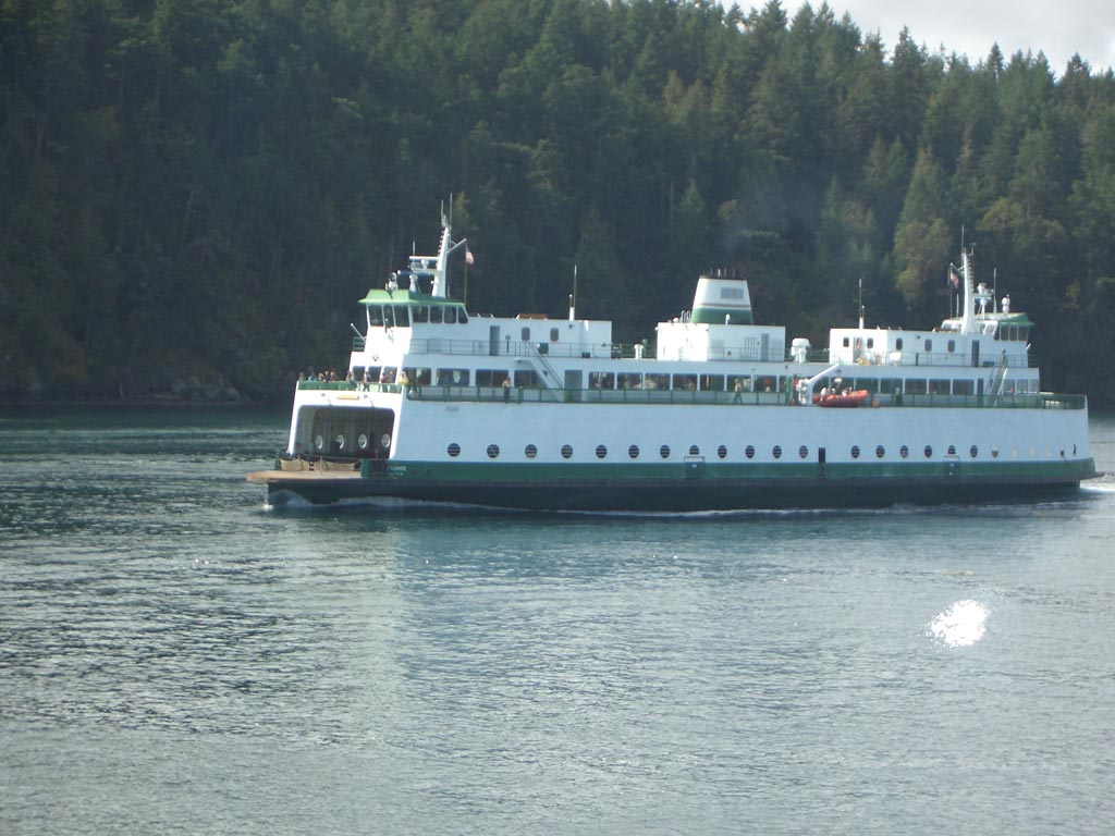 Mike Chapman